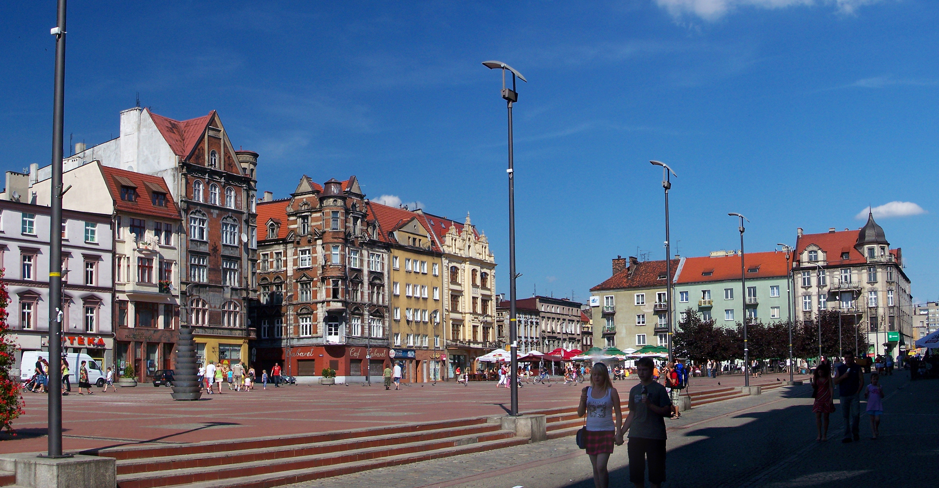 The market square in Bytom.